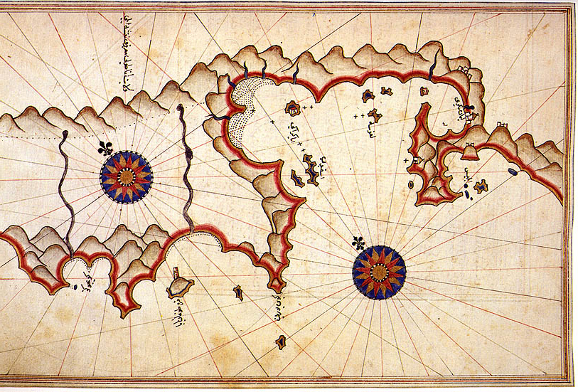 Fethiye in Turkey on the Kitab-Ä± Bahriye (Book of Navigation) of Piri Reis